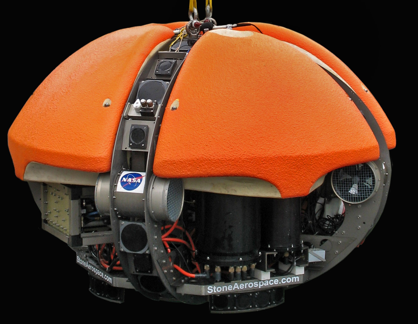 Deep Phreatic Thermal Explorer (DEPTHX) robot being lowered into La Pilita, one of several water-filled sinkholes in Sistema Zacaton (in northeastern Mexico)- picture made from a photo from Marc Airhart (Marcairhart at en.wikipedia